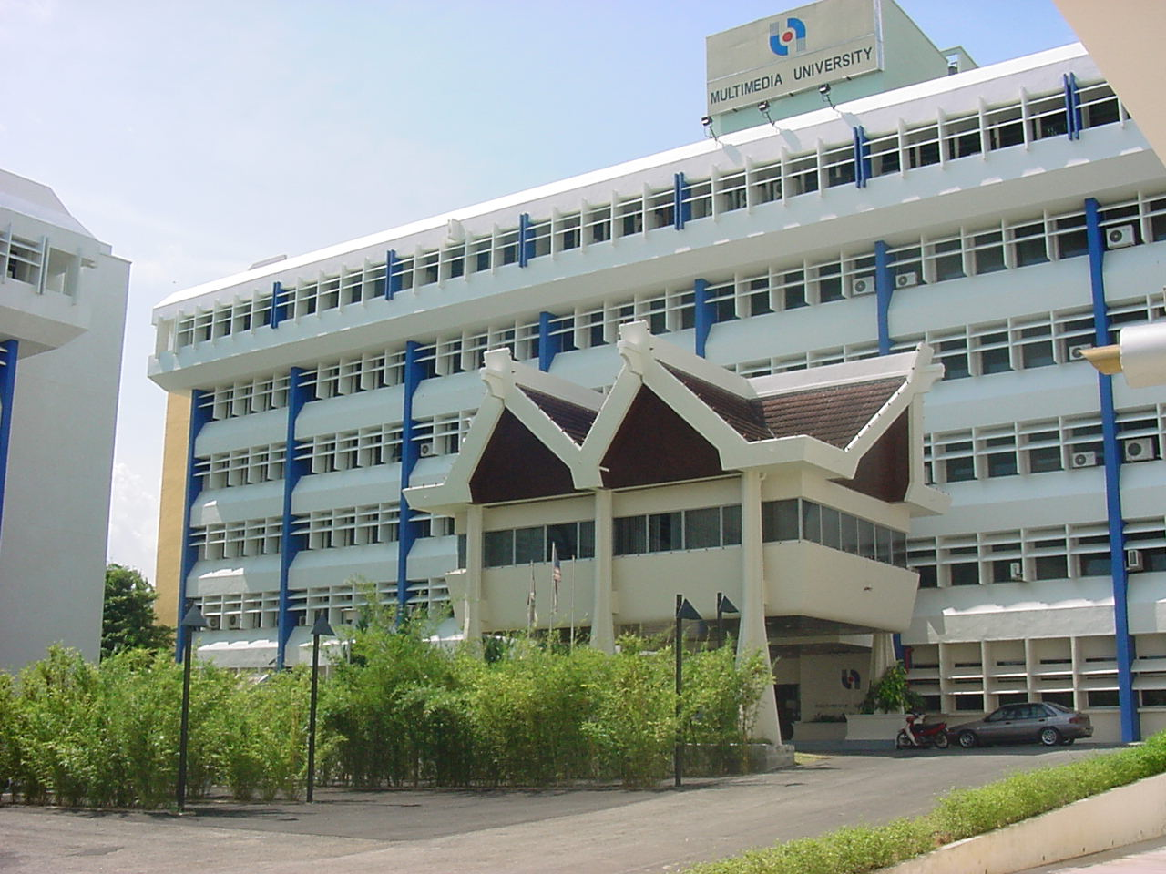 The Melaka Campus of Multimedia University, Malaysia.